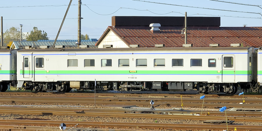 JR Hokkaido KiHa 141 series DMU car KiHa 142-12 stabled next to Naebo Station